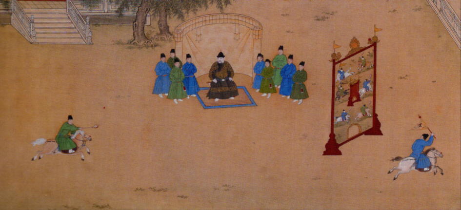 The Pleasures of Ming-Emperor Chenghua